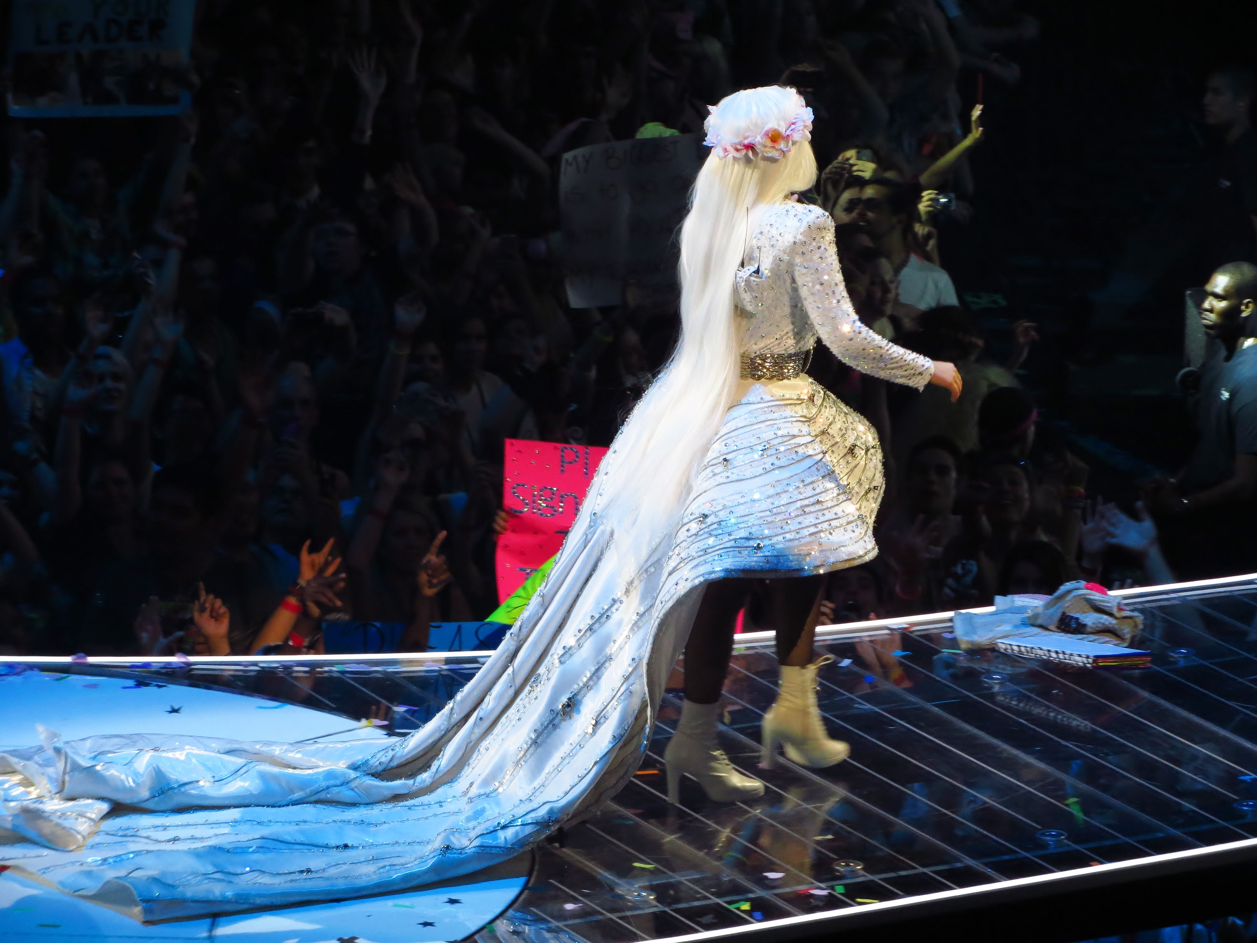 Lady Gaga, ARTPOP Ball Tour, Bell Center, Montréal, 2 July 2014 (127) Gaga performing on ArtRave: The Artpop Ball tour